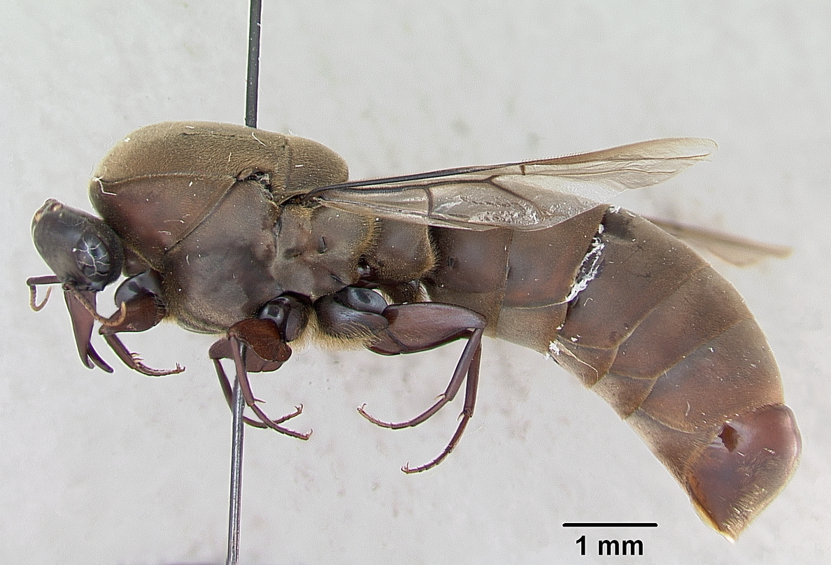 Profile view of ant Dorylus wilverthi specimen casent0172860.